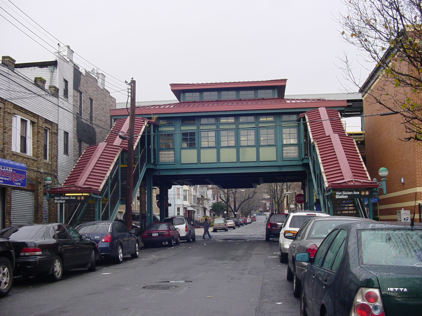 Van Siclen Avenue (BMT Jamaica Line) station entrances and fare control